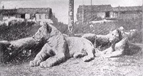 The mascots of the Escadrille Americaine, later the Escadrille Lafayette, were two lion cubs named Whiskey and Soda. A historic photo provided by the U.S. Air Force.